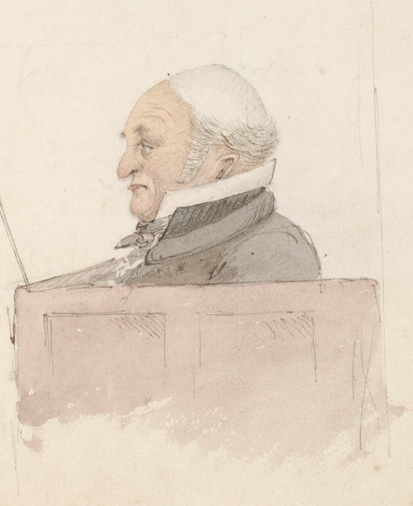 Watercolour c1817 by Edward Charles Close (1790-1866) from his New South Wales sketchbook (State Library of New South Wales, FL3271533, showing Michael Massey Robinson (1744-1826) Australia’s first published poet